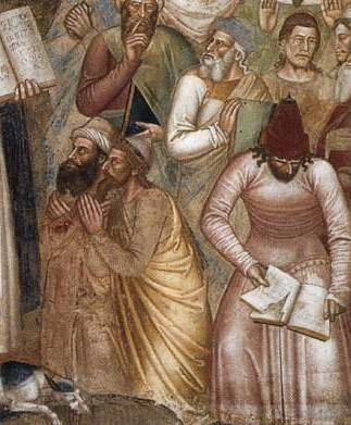 The Church as the Path to Salvation (detail ), east wall of Cappellone degli Spagnoli, Santa Maria Novella, Florence